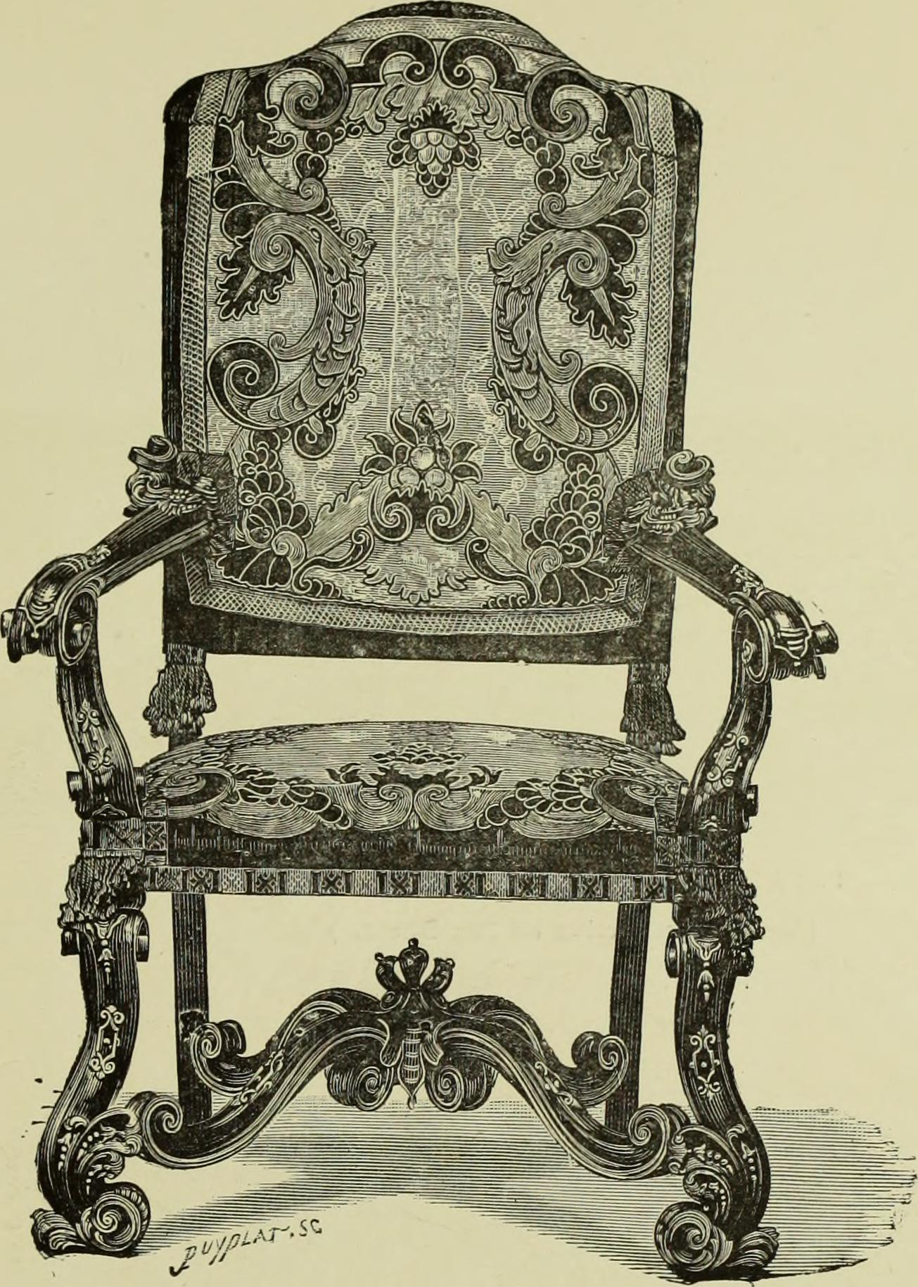 Title: Tapisseries, broderies et dentelles; recueil de modeles anciens et modernes Year: 1890 (1890s) Authors: Muntz, Eugene, 1845-1902 Subjects: Tapestry Embroidery Lace and lace making Publisher: Paris, Librairie de l'Art Text Appearing Before Image: ÉCRAN DE SATIN BLANC BRODÉ, DU TEMPS DE LOUIS XIV. (Ancienne collection de San Donato.) LXXX Text Appearing After Image: FAUTEUIL LOUIS XIV, A ENTRE-JAMBES En bois de noyer sculpté et doré en partie, garni de magnifique brocart ancienen soie et velours rouge soutaché, sur fond dor et dargent.(Ancienne collection de San Donato.)